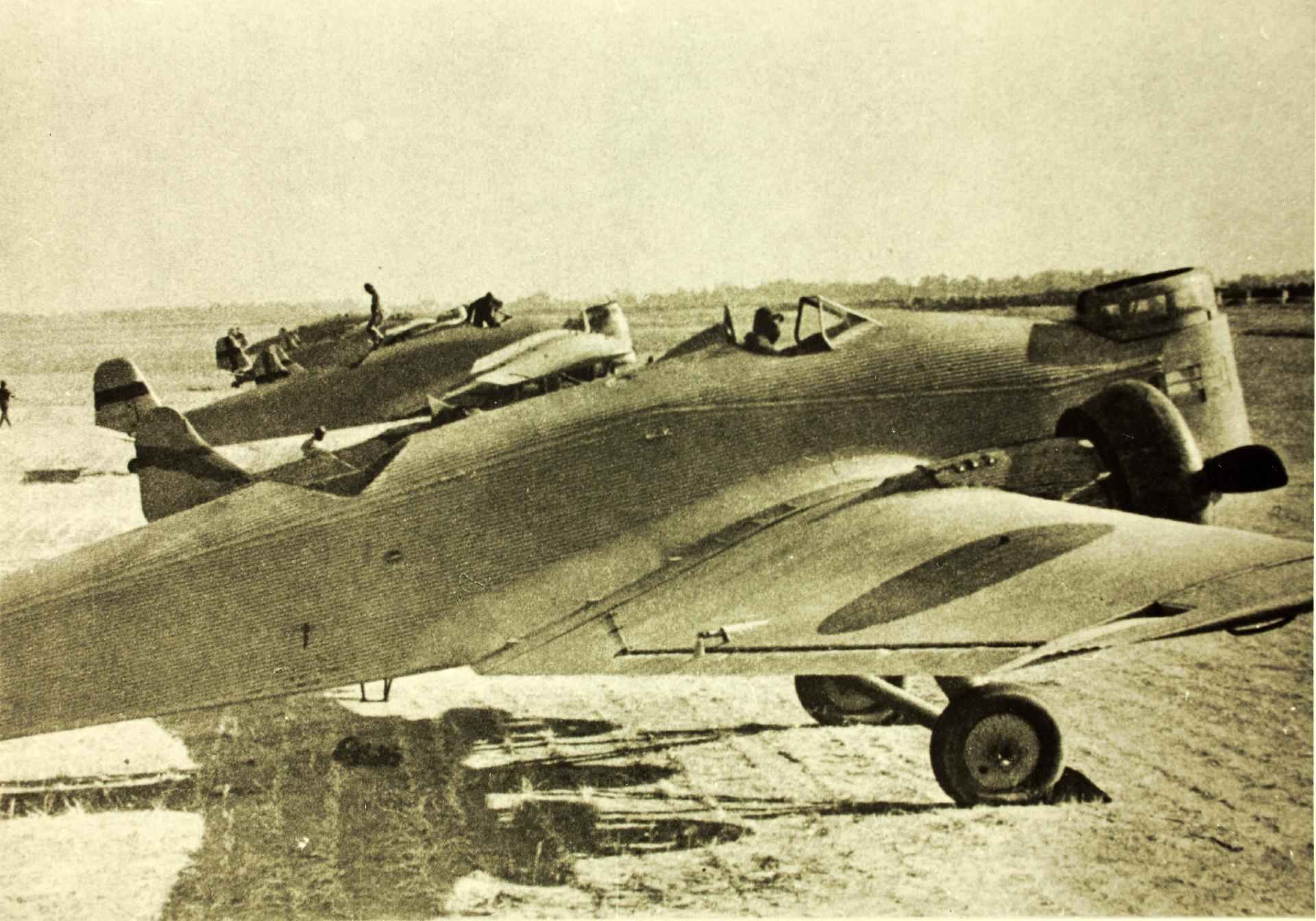 Mitsubishi Ki-2-I Army type 93-1 bombers lined up on ground